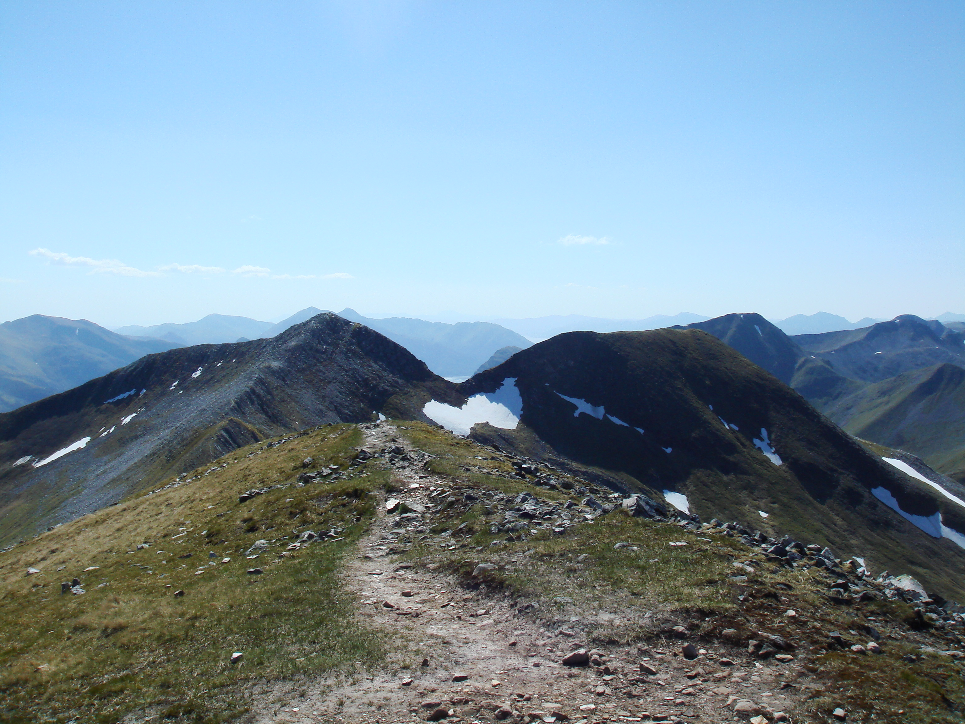 Na Gruagaichean seen from the ridge towards Binnein Mor.